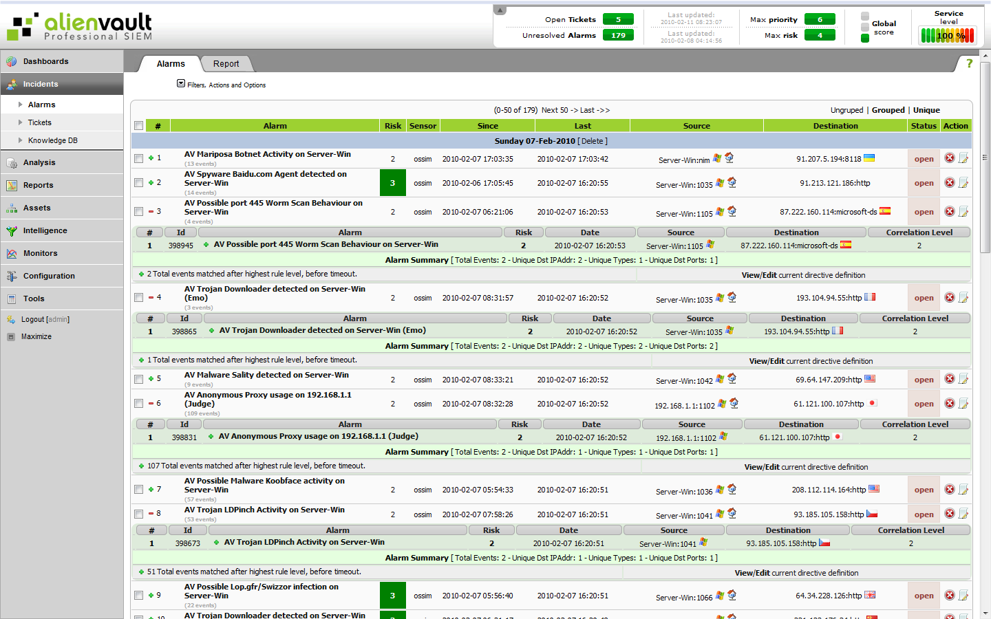 Screenshot